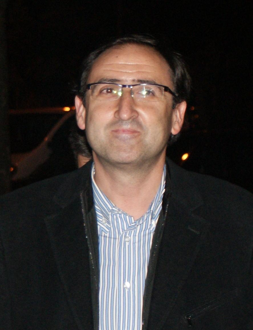 Alfonso Polanco, mayor of Palencia (Spain).